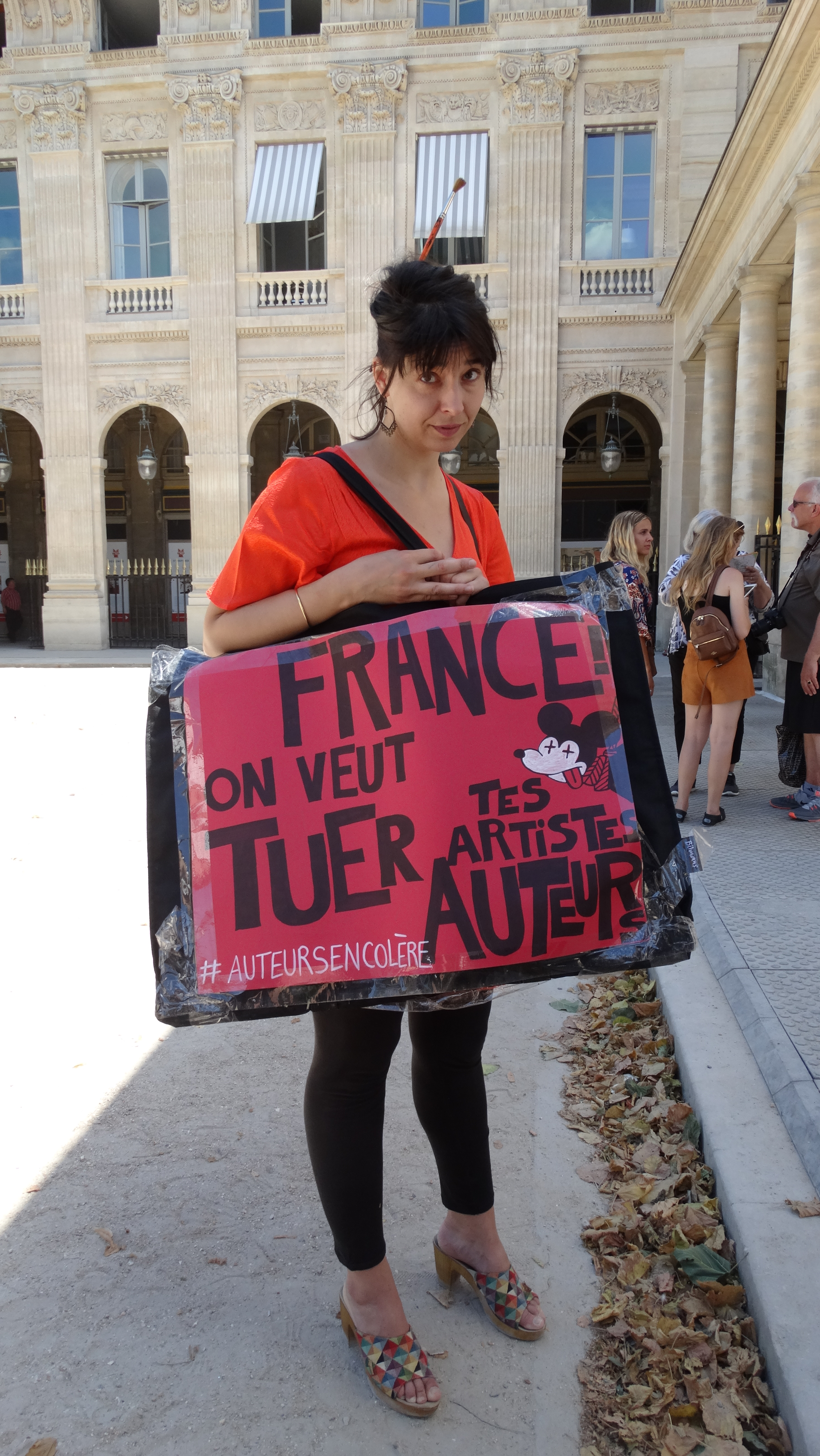 The French plastic artist and author Pauline Kalioujny attending "the funerals of Tomorrow's Book", a happening organized by the Charte des auteurs et des illustrateurs jeunesse on July 9th 2018, in the Jardin du Palais-Royal, in Paris.